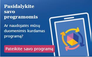 Screenshot from EUODP